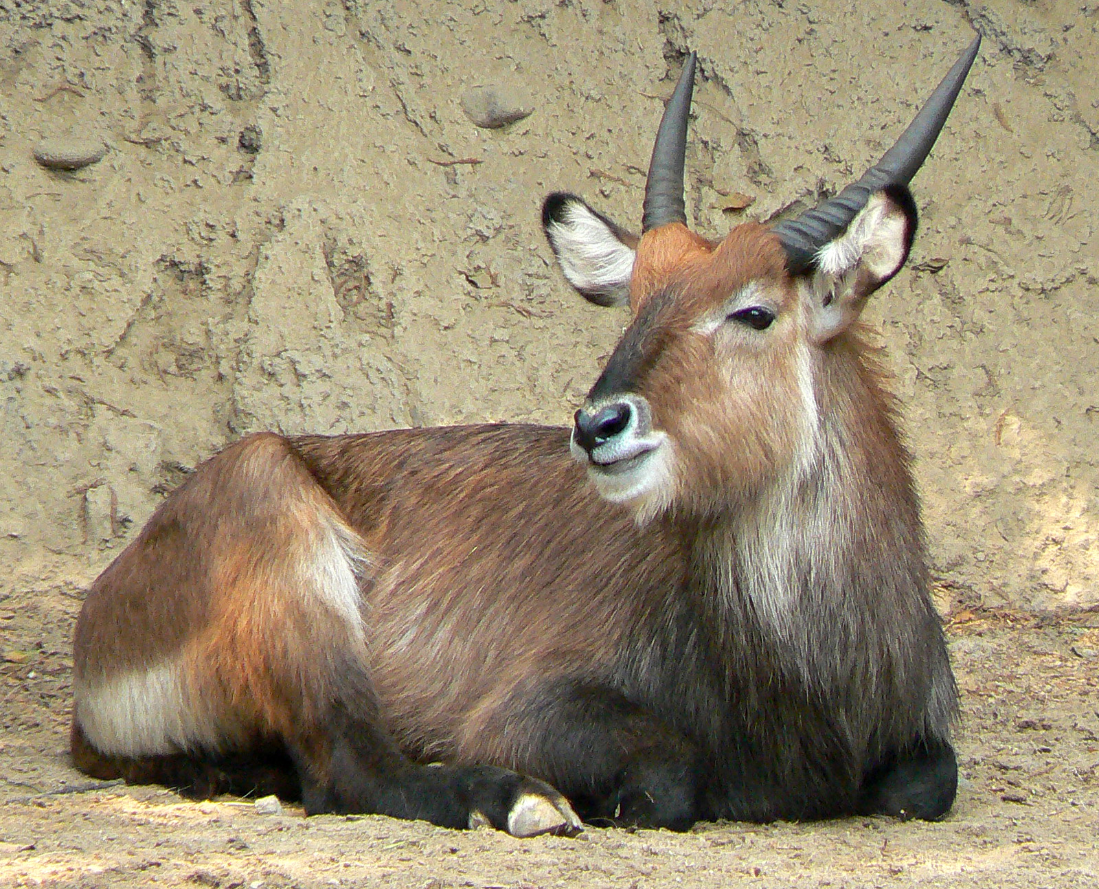 The Waterbuck (Kobus ellipsiprymnus) is an antelope found in Western, Central Africa, East Africa and Southern Africa. Waterbuck stand 100 to 130 centimetres at the shoulder and weigh from 160 to 240 kilograms. They are also very heavy. Their coats are reddish brown in colour and become progressively darker with age; they also have a white 'bib' under their throats and a white ring on their rumps surrounding their tails. The long spiral structured horns sweep back and up, they are found only in males